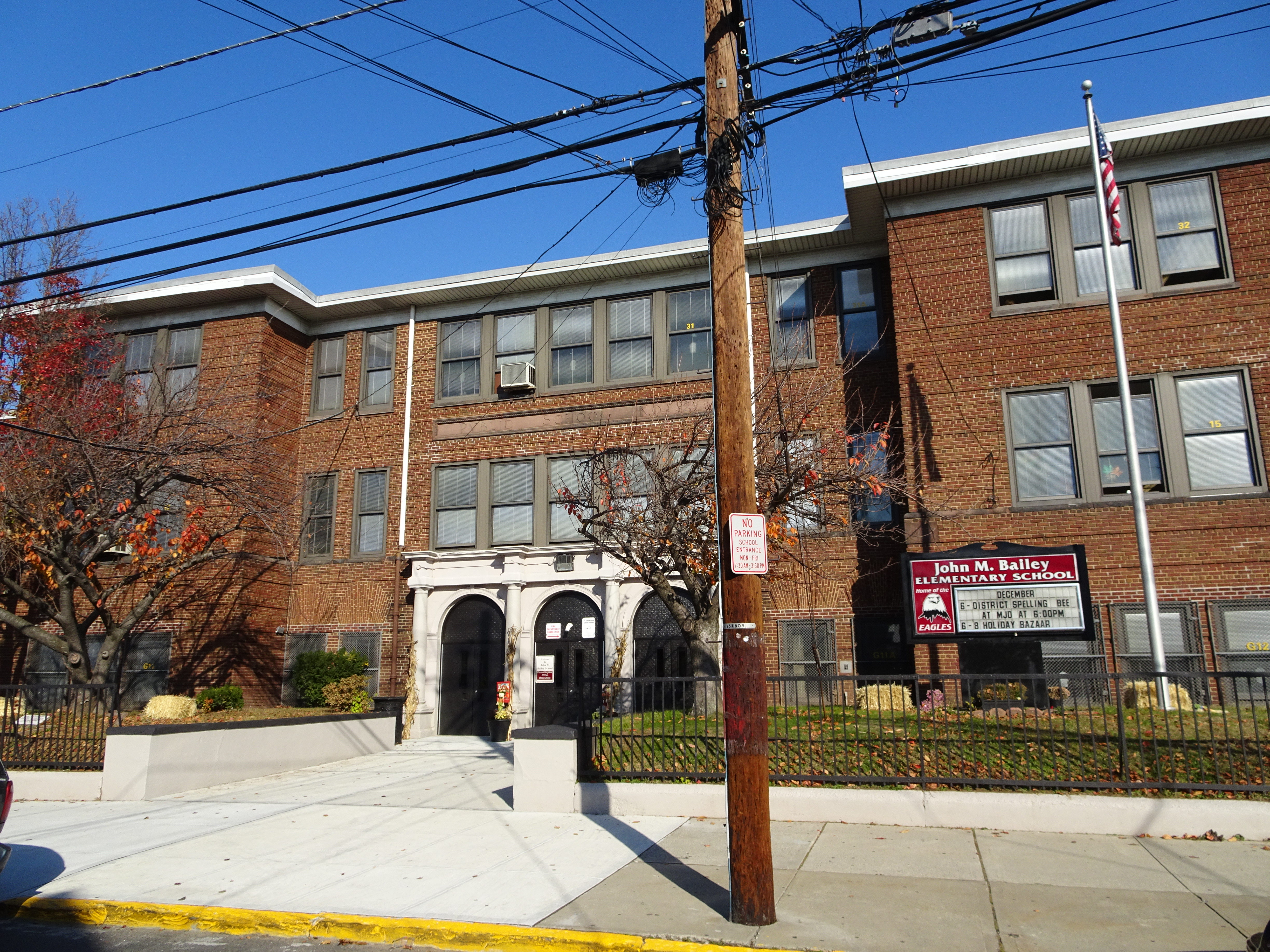 Looking north at Bayonne PS 12 on a sunny late morning